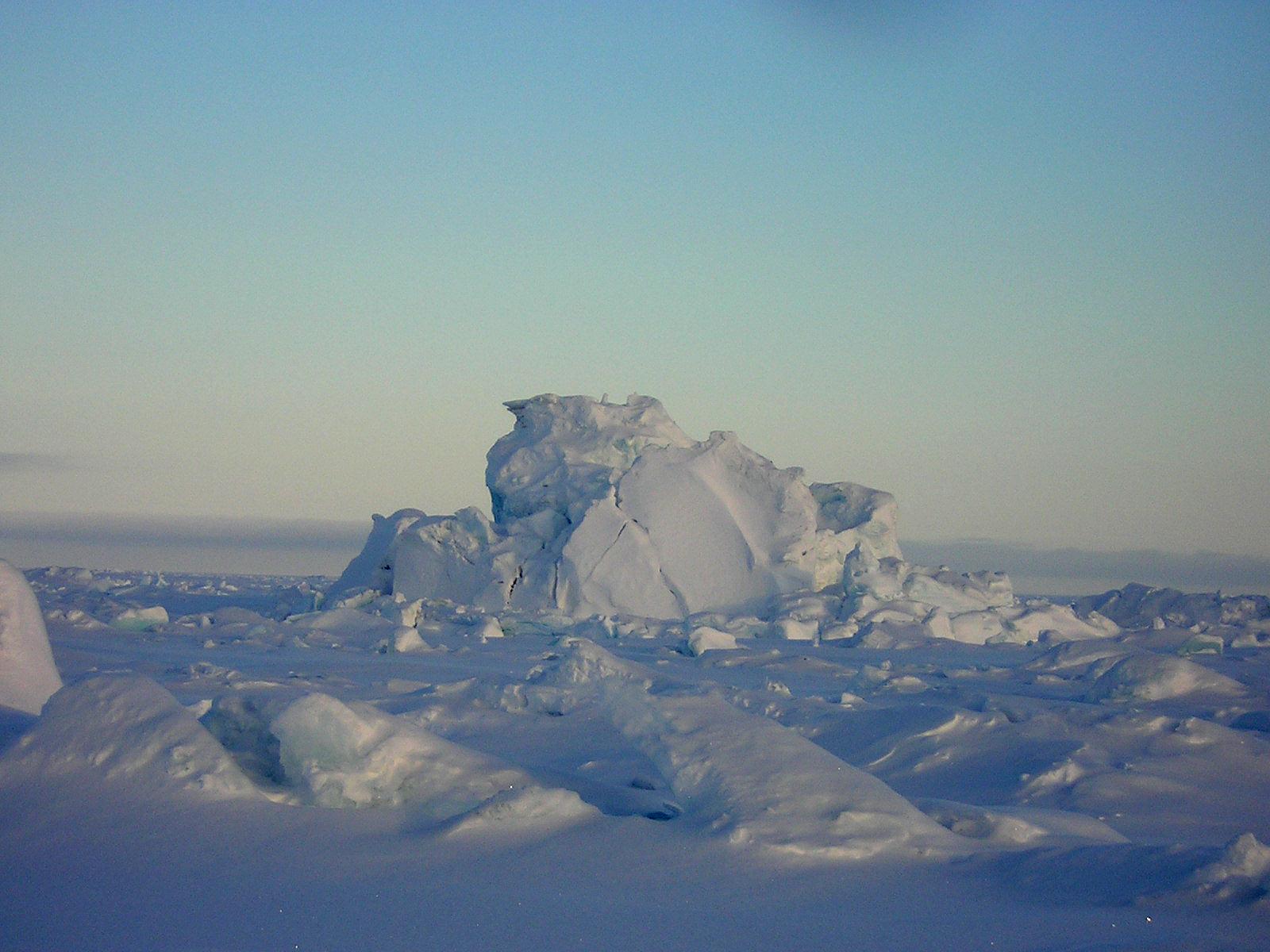 Captive iceberg in Resolute Bay, Nunavut